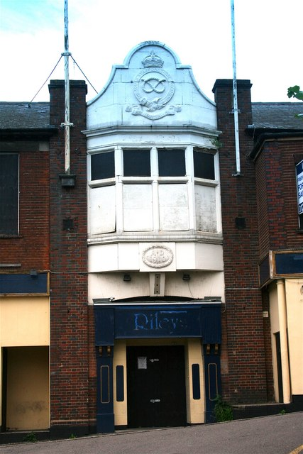 Former drill hall of the 5th battalion South Staffordshire Regiment Territorial Army. Later a night club called The Fifth.. Unused at time of photo. Carries the Staffordshire knot on its facade, was built in the days when Walsall was part of Staffordshire, not the current West Midlands county.